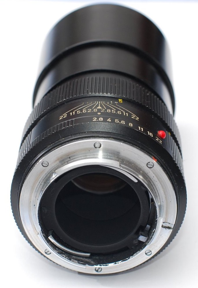 Leica 135mm f/2.8 lens